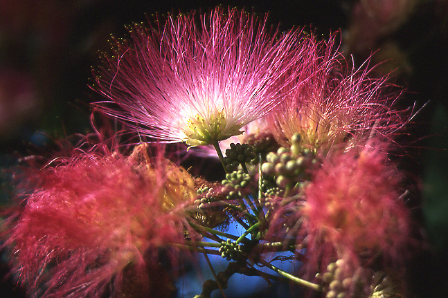 This is a scan from a 35mm transparency which I took in 2005 (in the Vendée region of France). It shows a close-up of the flowers of the "silk tree", Albizia julibrissin f. rosea. The flowers feature showy clusters of stamens. This scan is in the Public Domain (however, I retain ownership and copyright of the original transparency and any higher-resolution scans derived from it). If this image is used outside Wikipedia a photographer's credit (Simon Garbutt) would be much appreciated! SiGarb 18:18, 11 December 2005 (UTC)